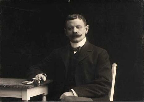 Walter Christmas(-Dirckinck-Holmfeld) (1861-1924), Danish naval officer, writer, dramatist, and theatre manager